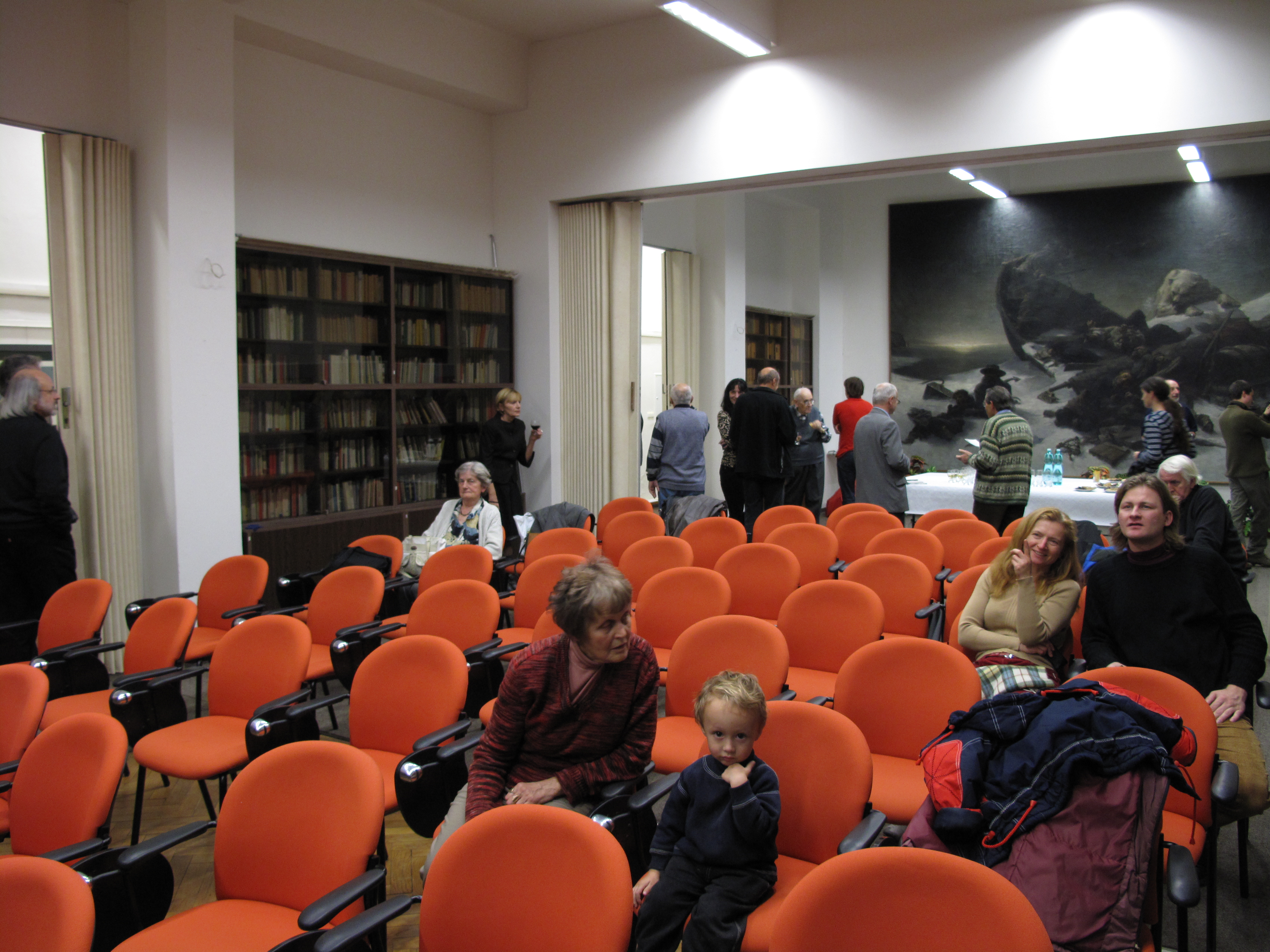 Vernissage of Proměnlivé strukury, art of Aleš Svoboda, lectures hall of the Institute of Geophysics of Czech academy of Science, Prague, Czech Republic. Personality rights warningAlthough this work is freely licensed or in the public domain, the person(s) shown may have rights that legally restrict certain re-uses unless those depicted consent to such uses. In these cases, a model release or other evidence of consent could protect you from infringement claims.